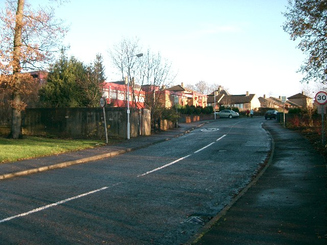 Blairhall. A view of the south approach to this former mining village.